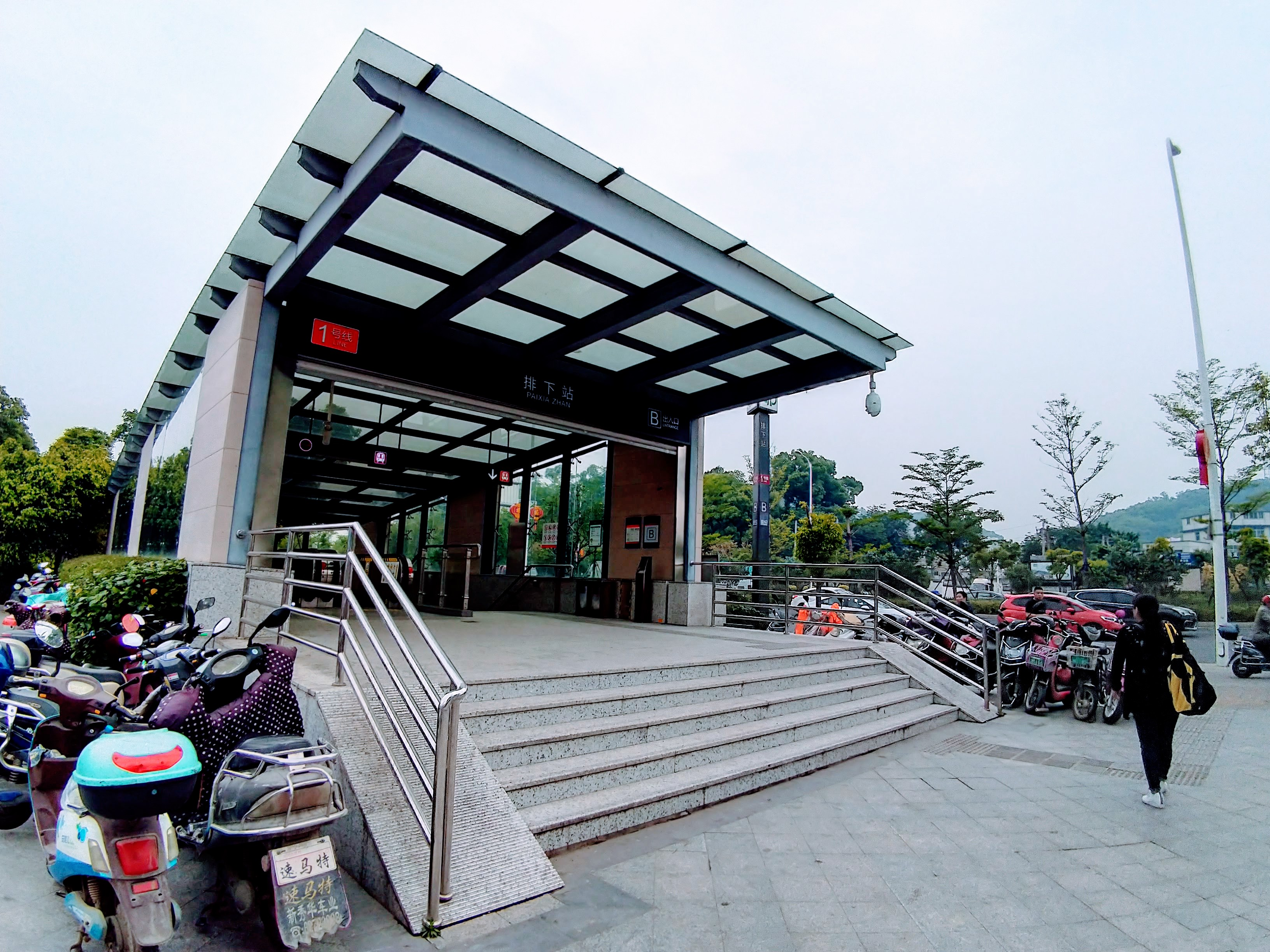 Paixia station (Fuzhou subway)